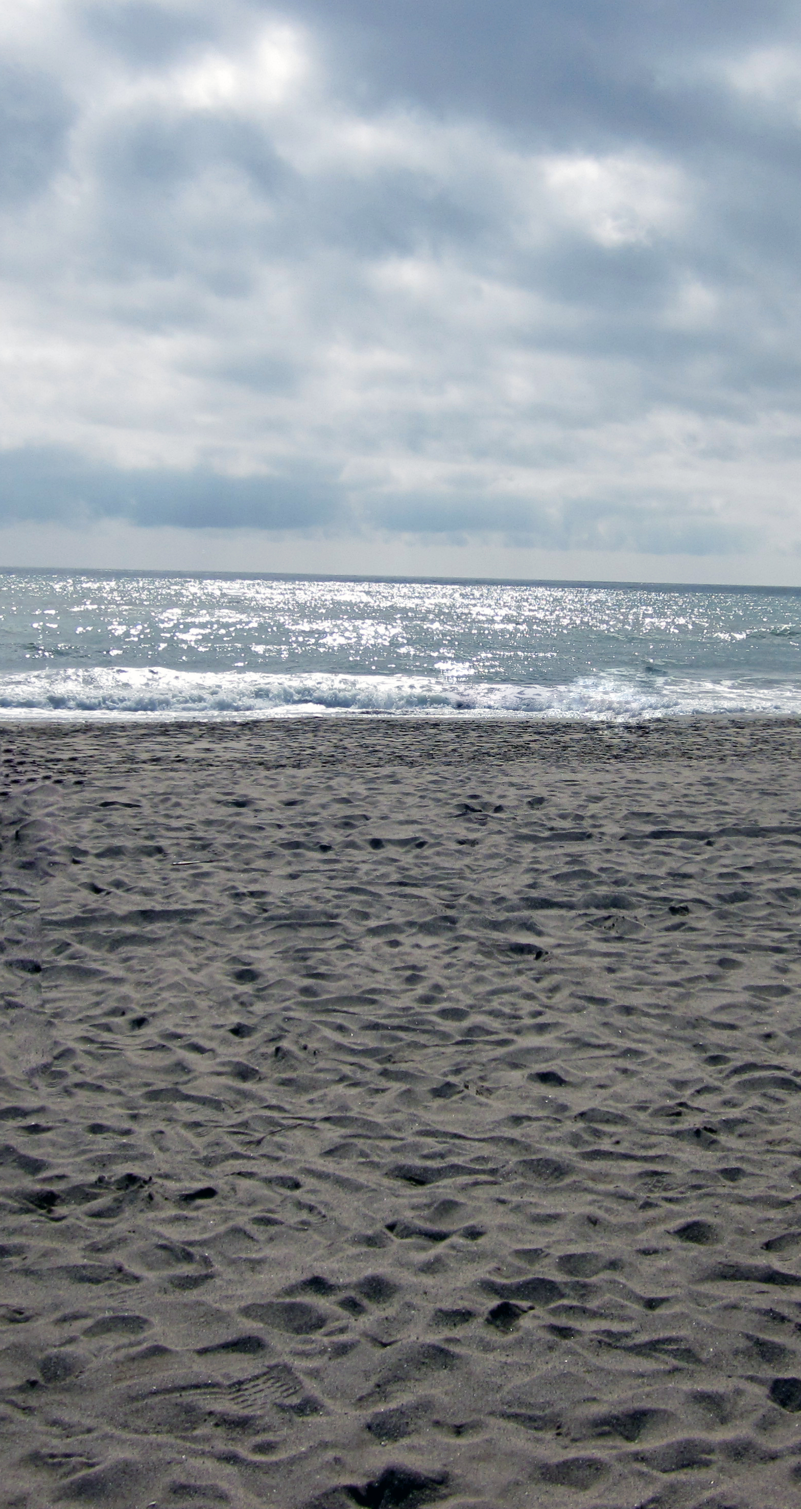 El Prat de Llobregat (Catalunya, Spain) beach.